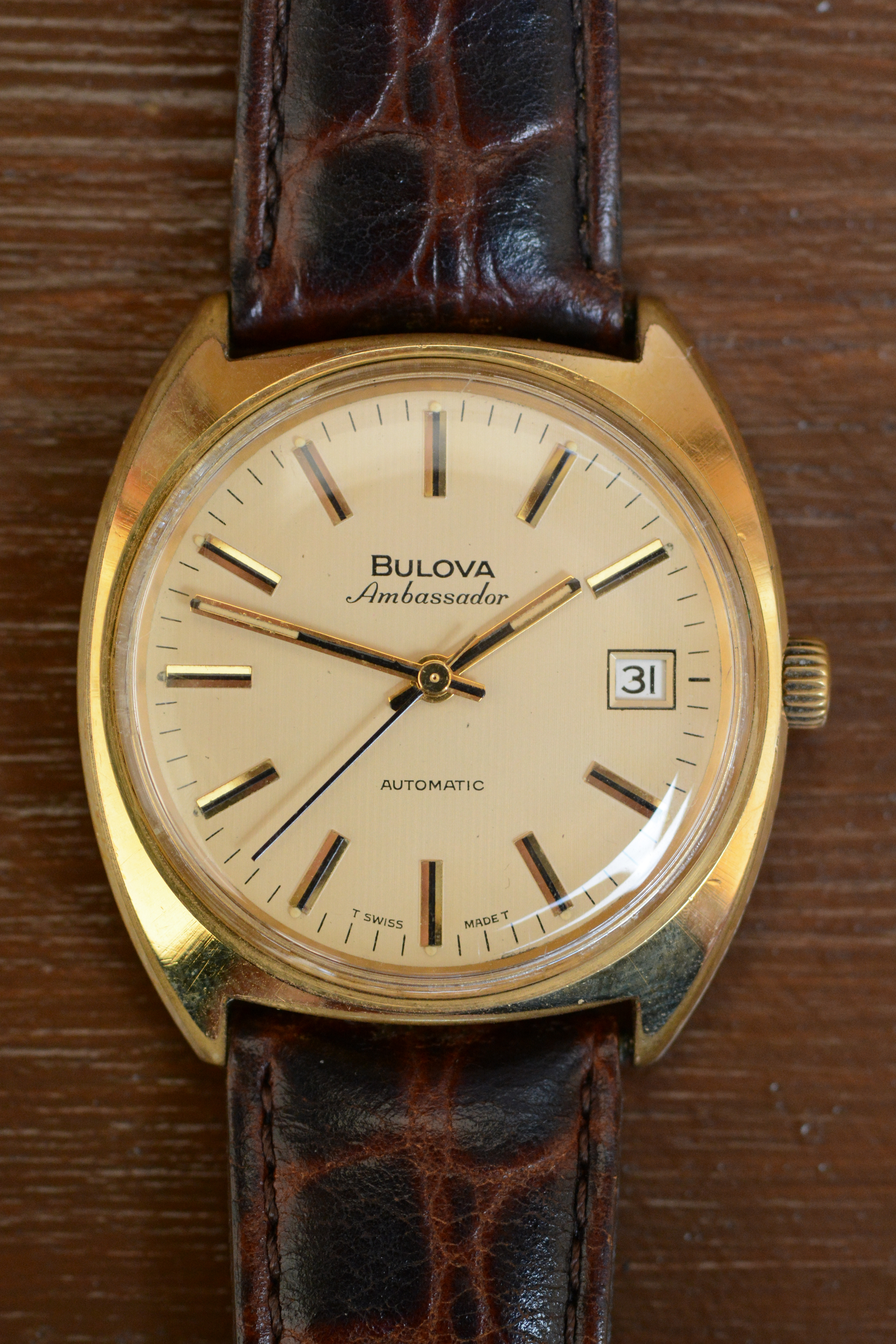 Bulova Ambassador Automatic